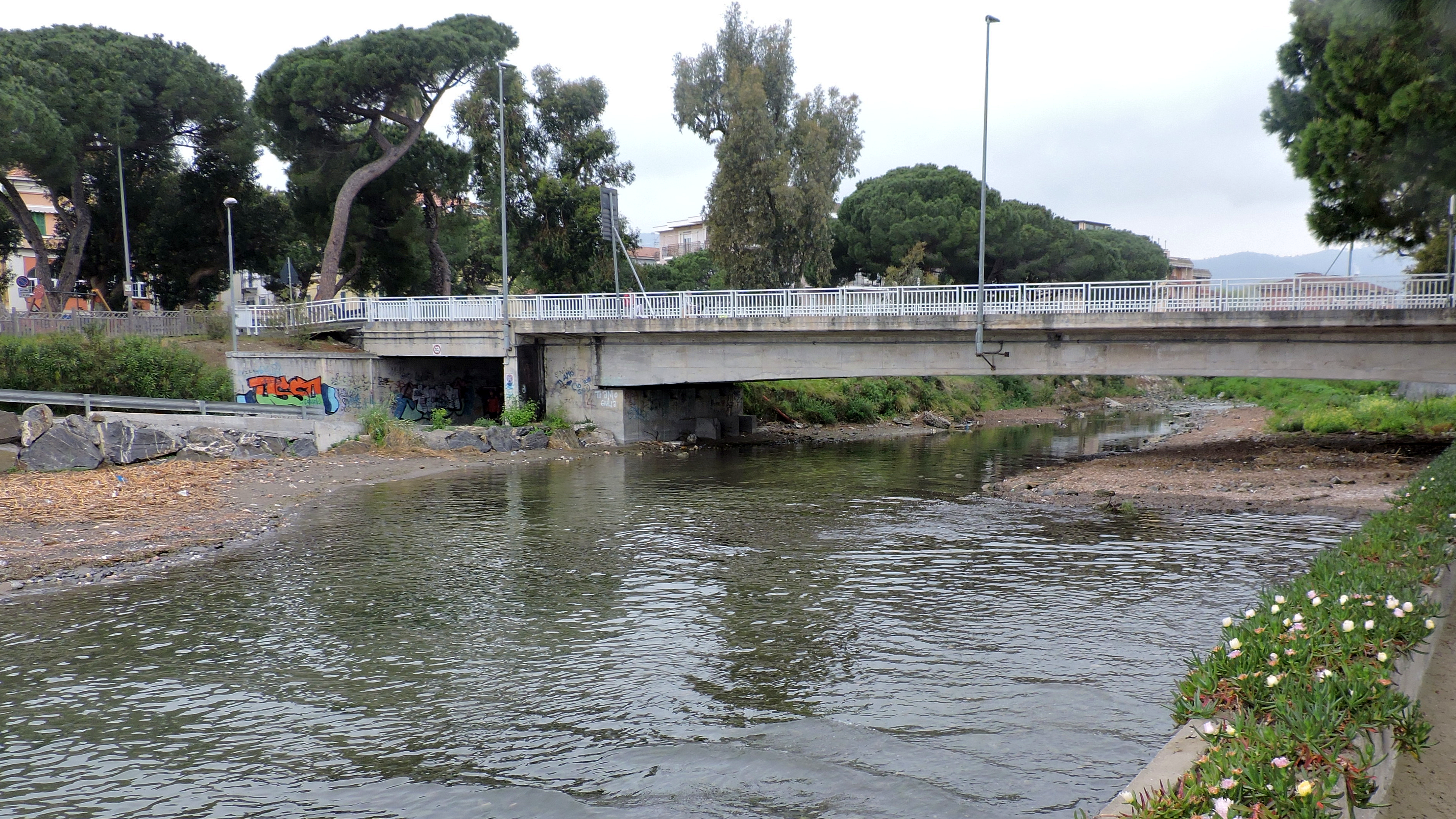 Mouth of the Torrente San Pietro (Liguria, Italy)